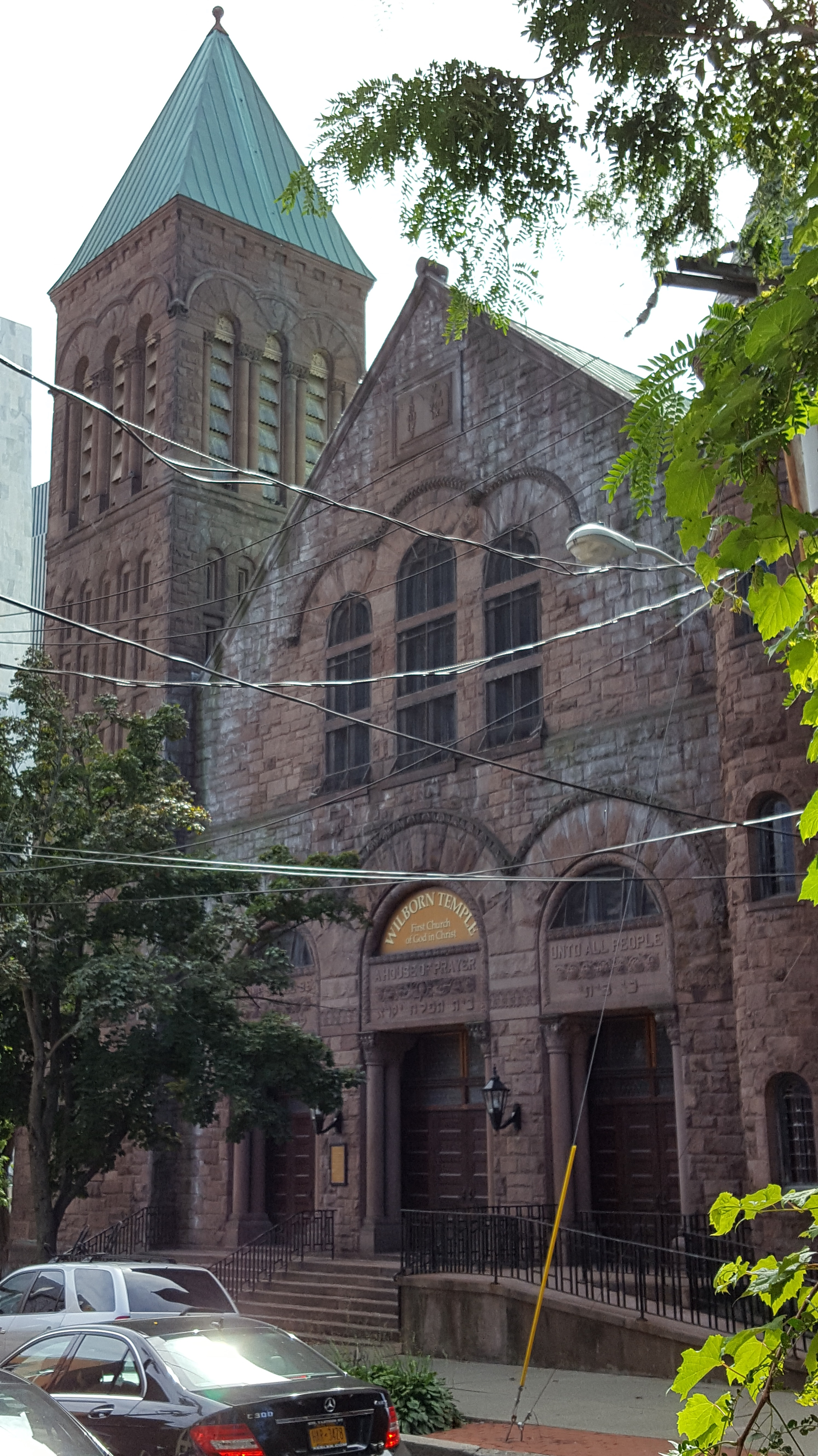 Wilborn Temple, First Church of God in Christ, 79 Hamilton Street, Albany, NY. Built in 1887 as a synagogue, the original home of Congregation Beth Emeth. The inscription on the facade says "Mine shall be a house of prayer unto all people", repeated in Hebrew characters.